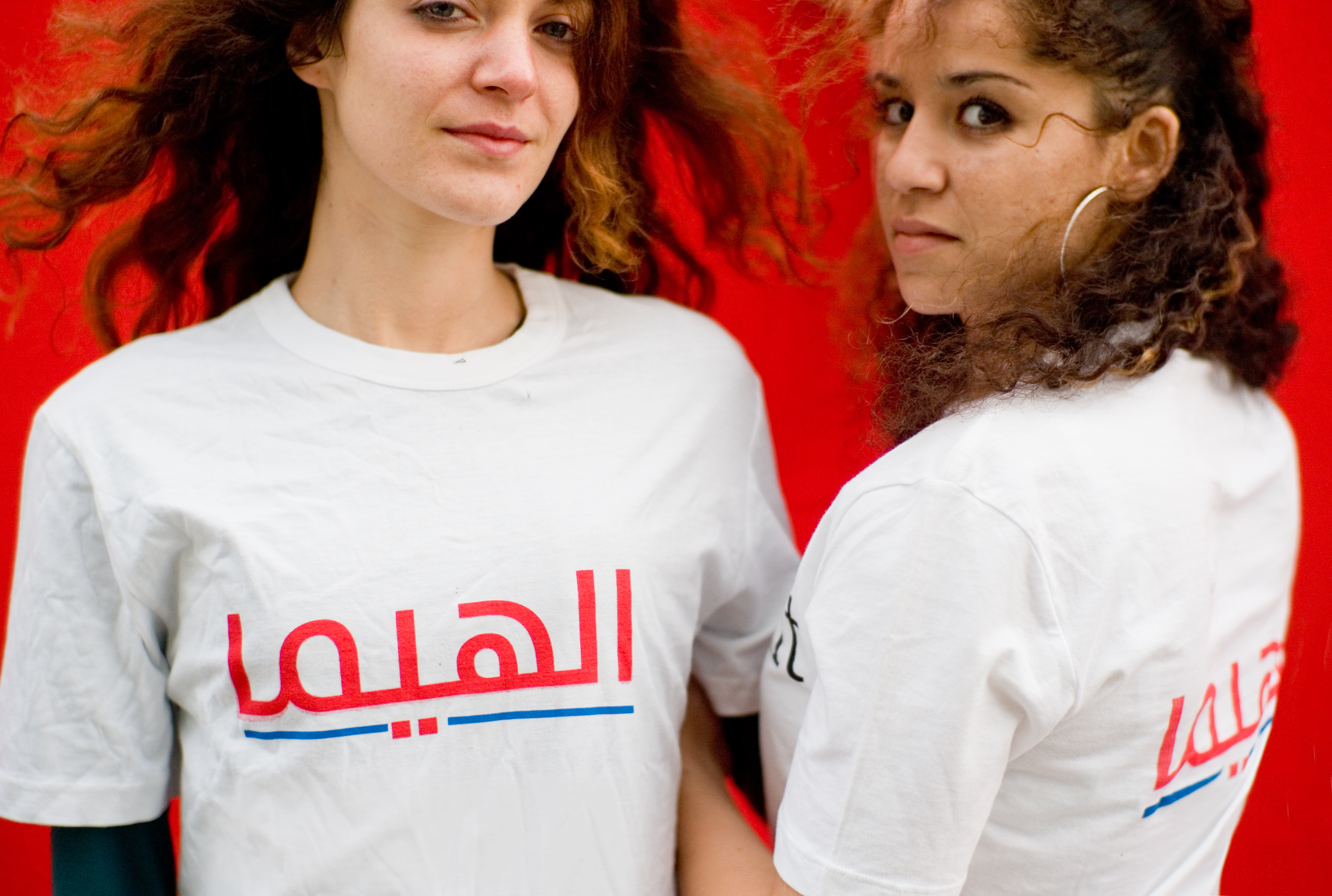 Girls in an El Hema t-shirt, part of the art project with the same name.